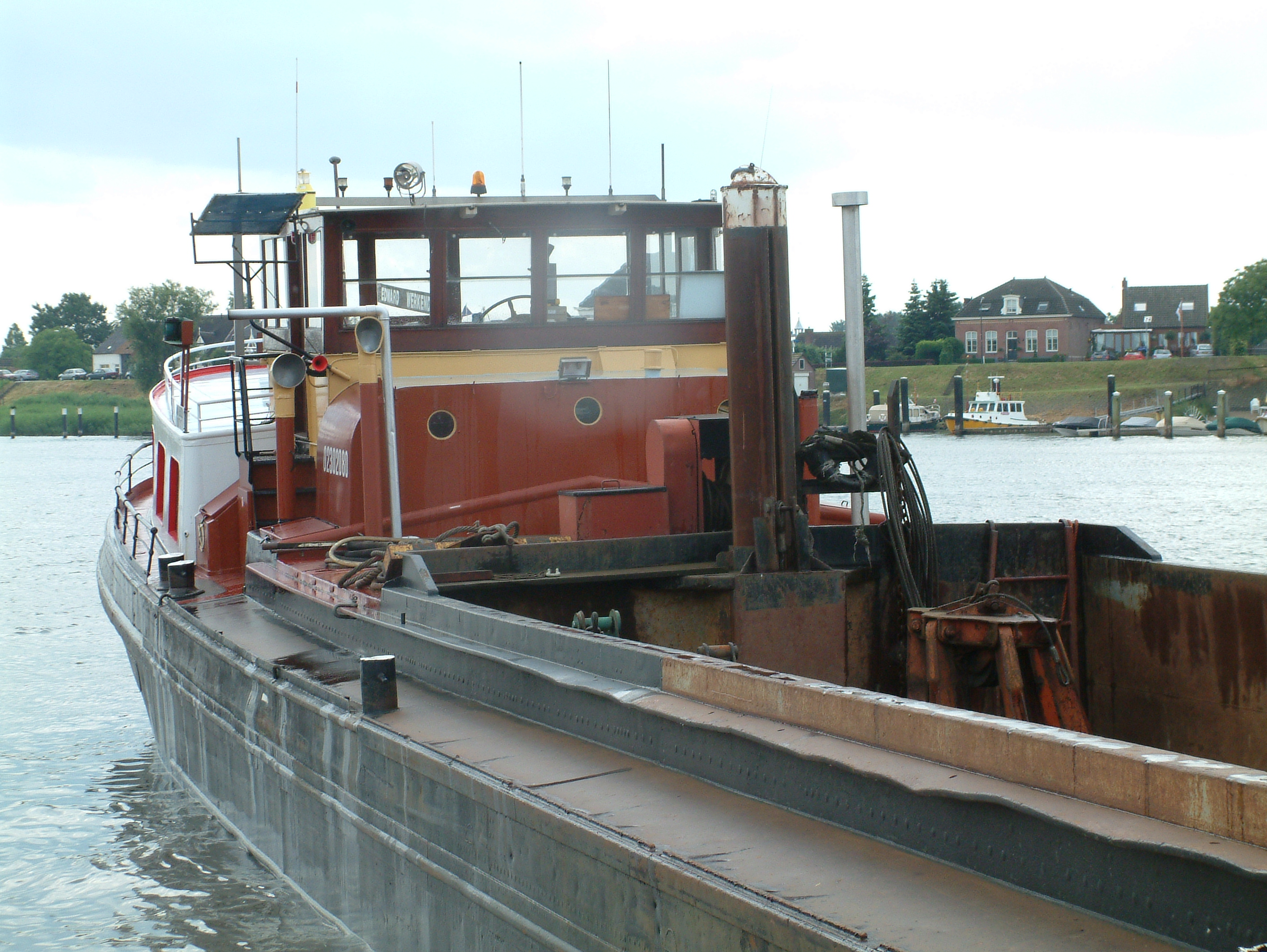 Anchorpole back of ship